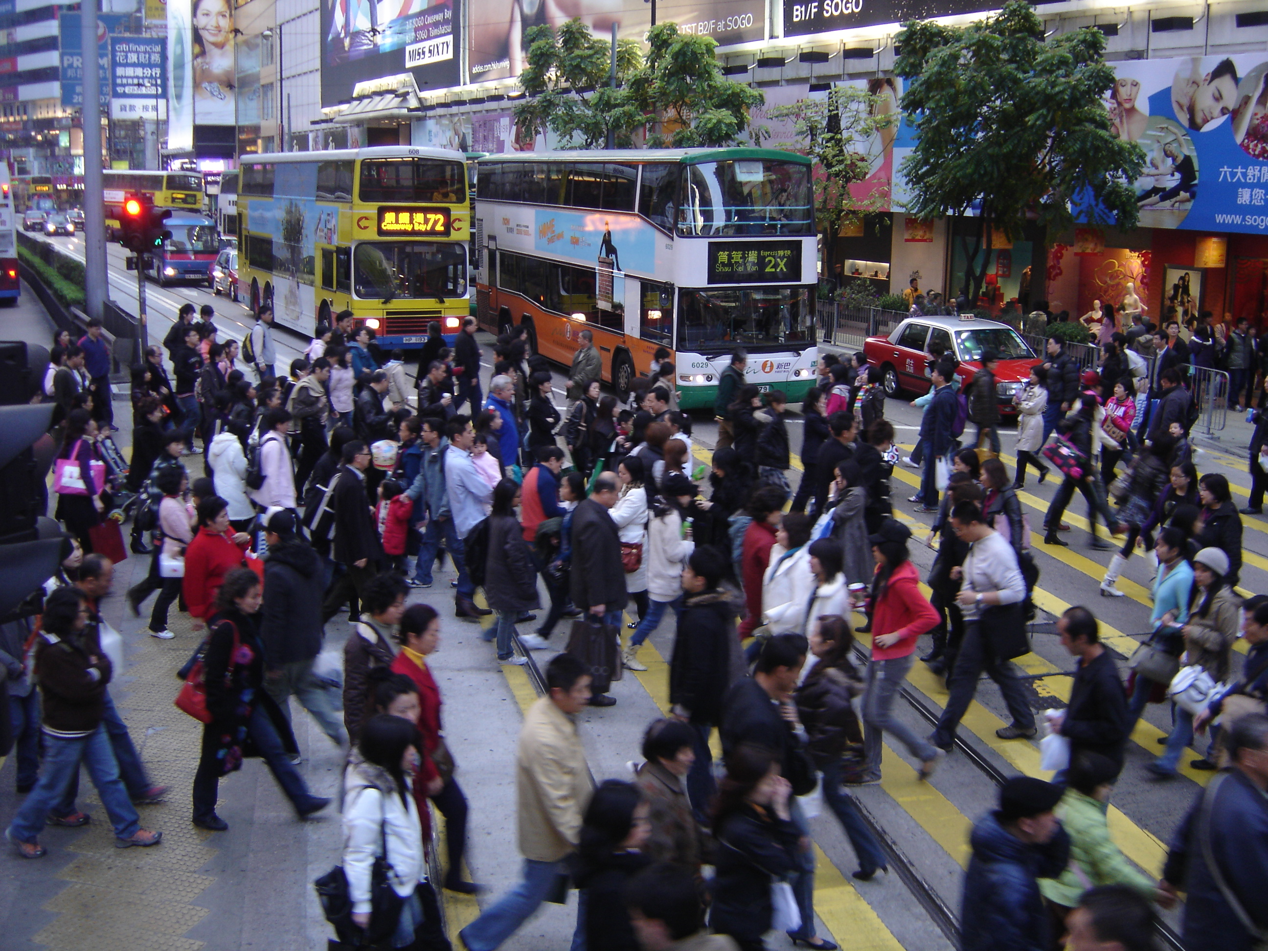 Many pedestrians In Causeway Bay, Hong Kong 中文（香港）: 香港的銅鑼灣有很多行人